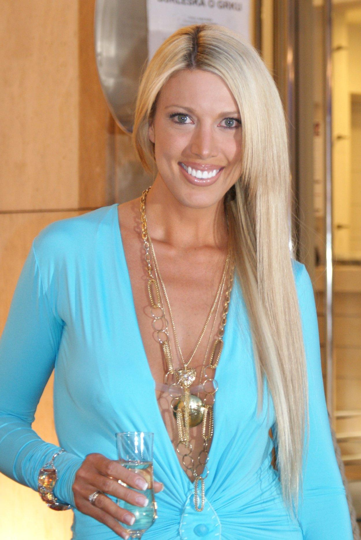 Polish entry in the Eurovision Song Contest - Belgrade 2008